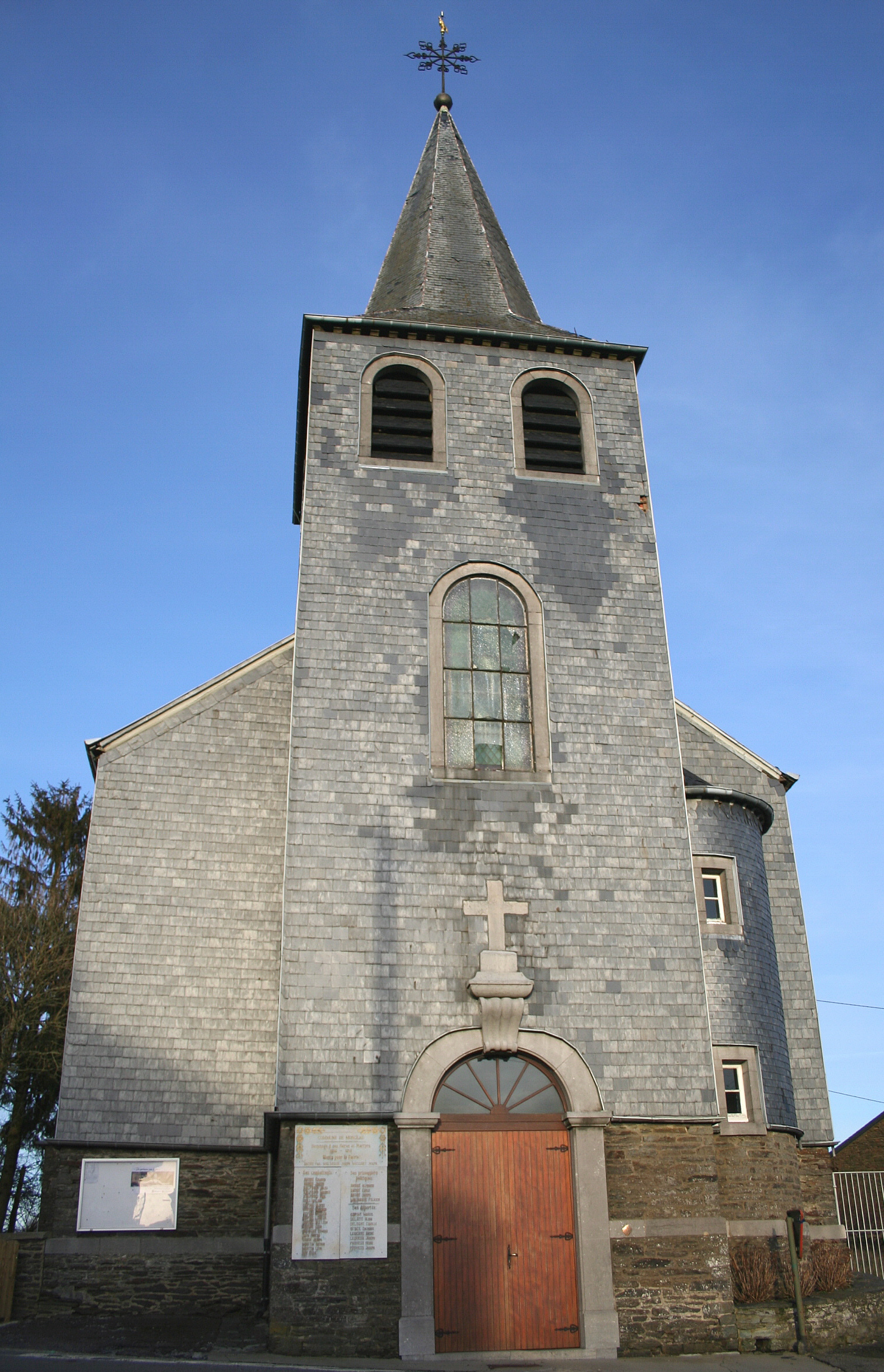 Monceau-en-Ardenne (Belgium), the St. Jacques church (1857).